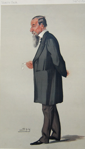 Caricature of Jonathan Hutchinson, surgeon by Spy (Sir Leslie Ward) for Vanity Fair magazine 27 Sep 1890. Caption was "Mr. Jonathan Hutchinson"